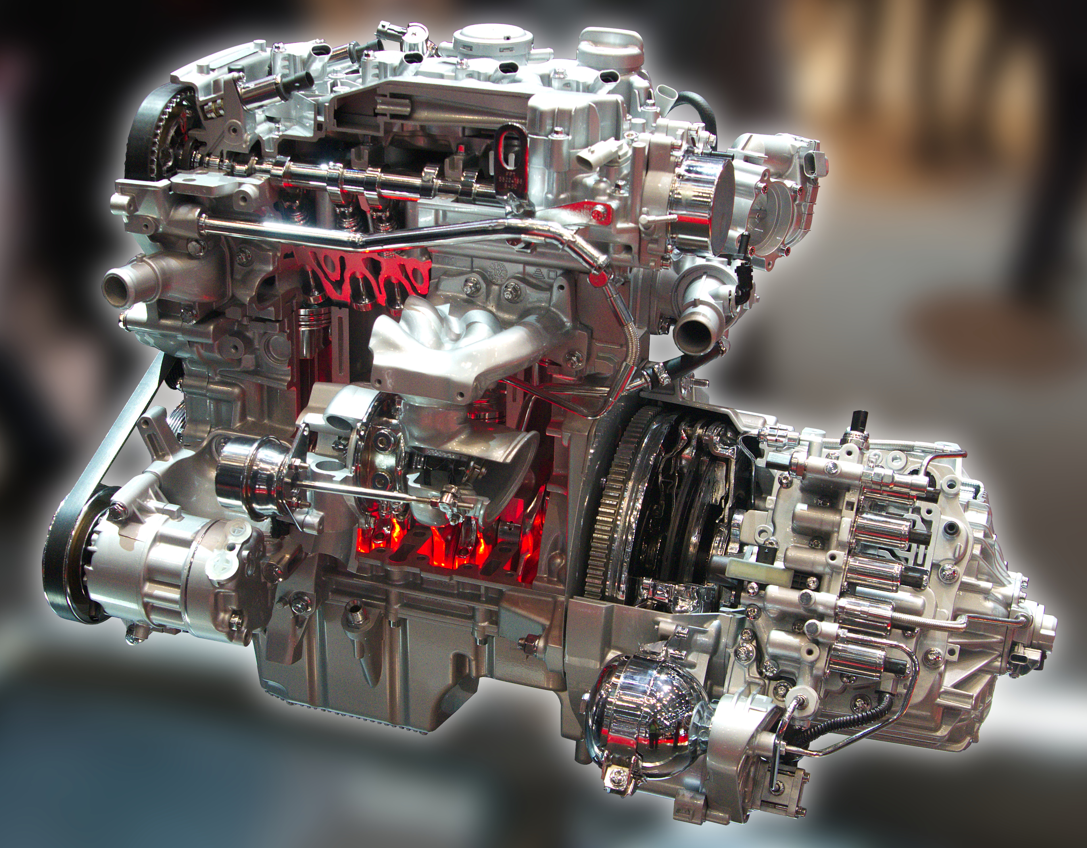 Geneva MotorShow 2013 - Alfa-Romeo engine